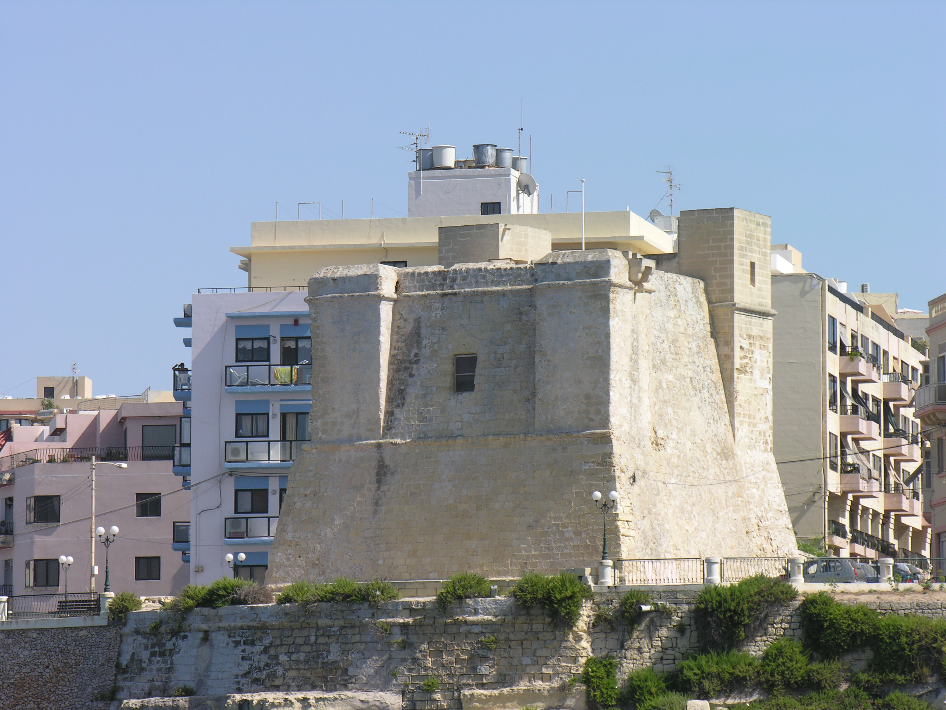 St. Paul's Bay Tower